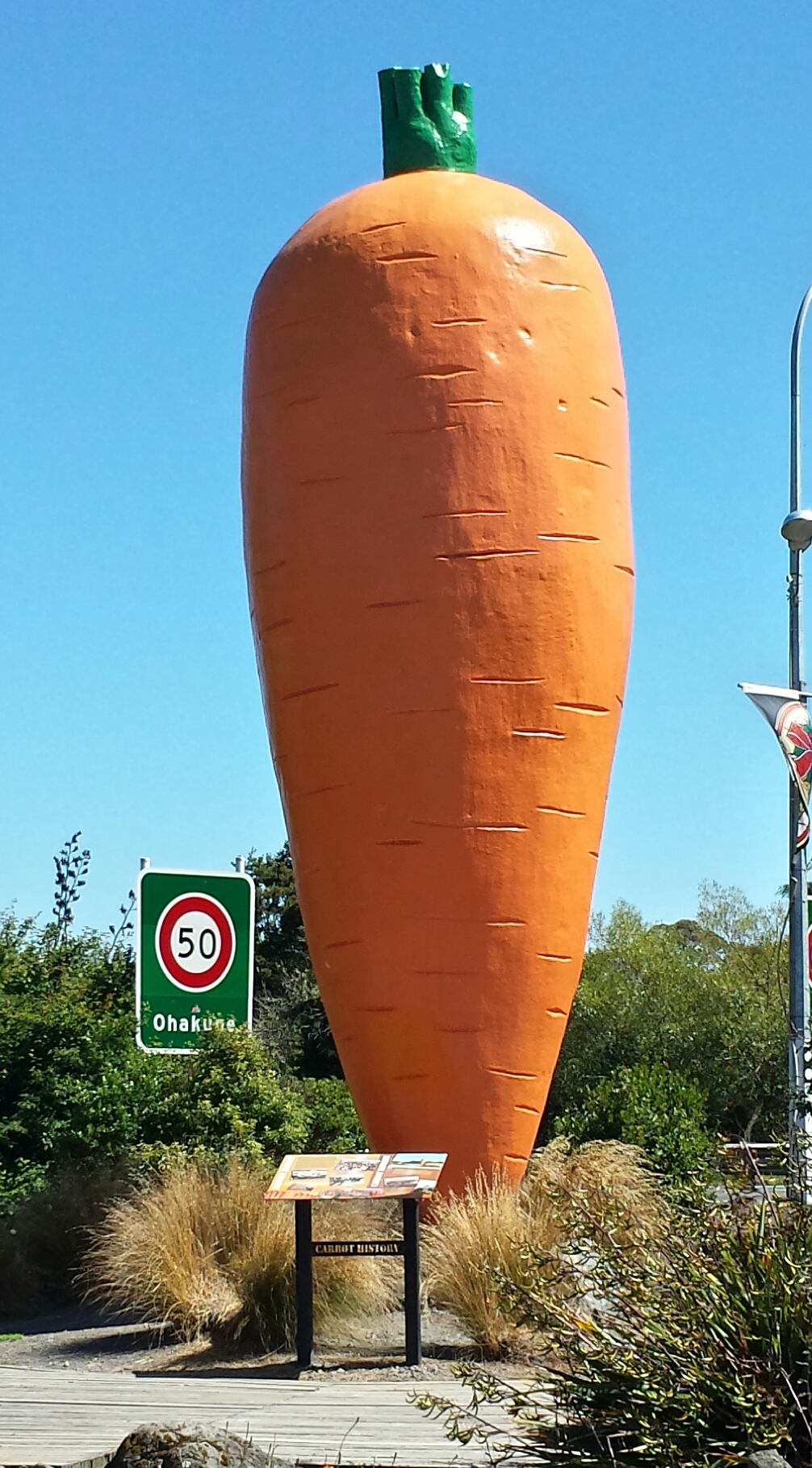 The iconic Ohakune carrot